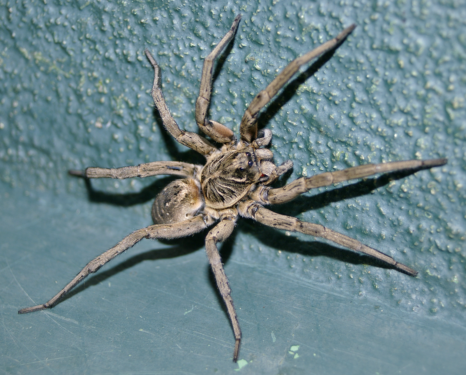 Lycosa leuckarti (Wolf spider) photographed in Wagga Wagga, New South Wales, Australia. Because this photograph concerns privacy since this was taken on a private property, only an approximate location is provided: Wagga Wagga, New South Wales, Australia